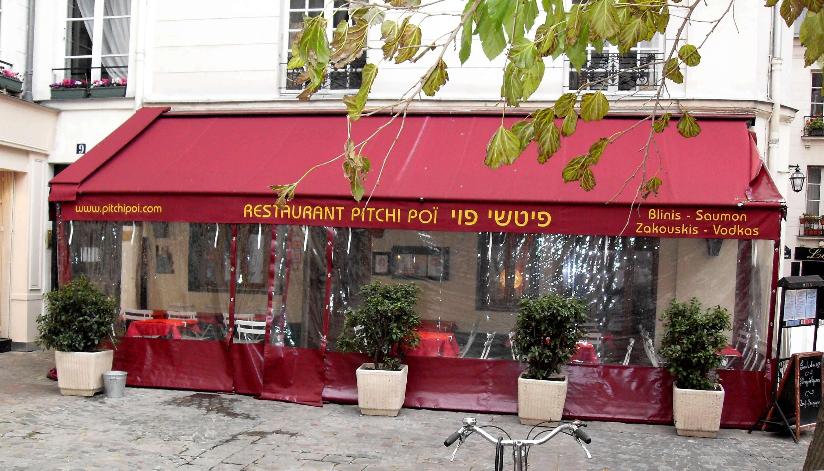 yiddish restaurant in the Pletzl, the jewish quarter in Paris.